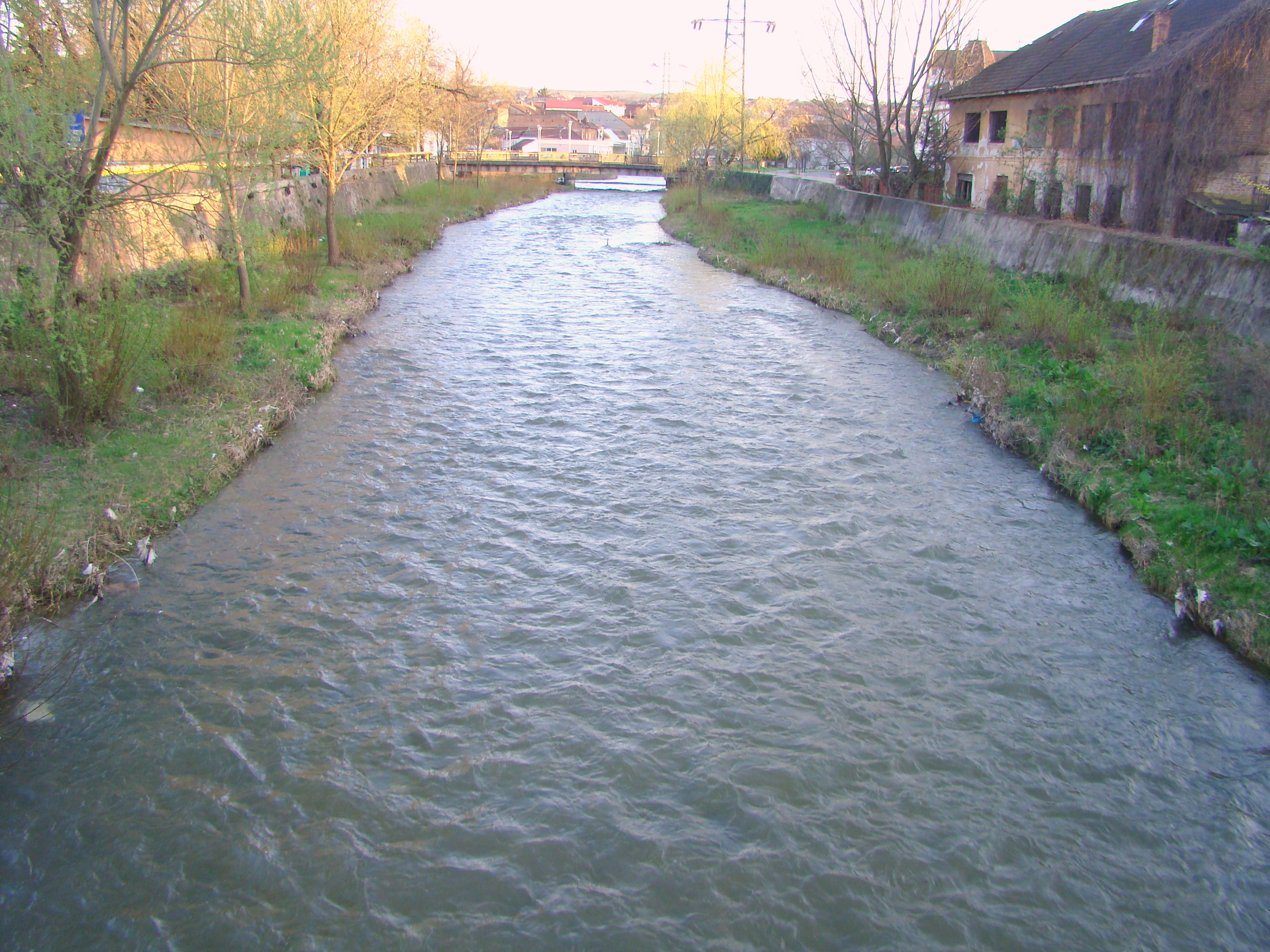 Cerna River, Hunedoara County, Romania